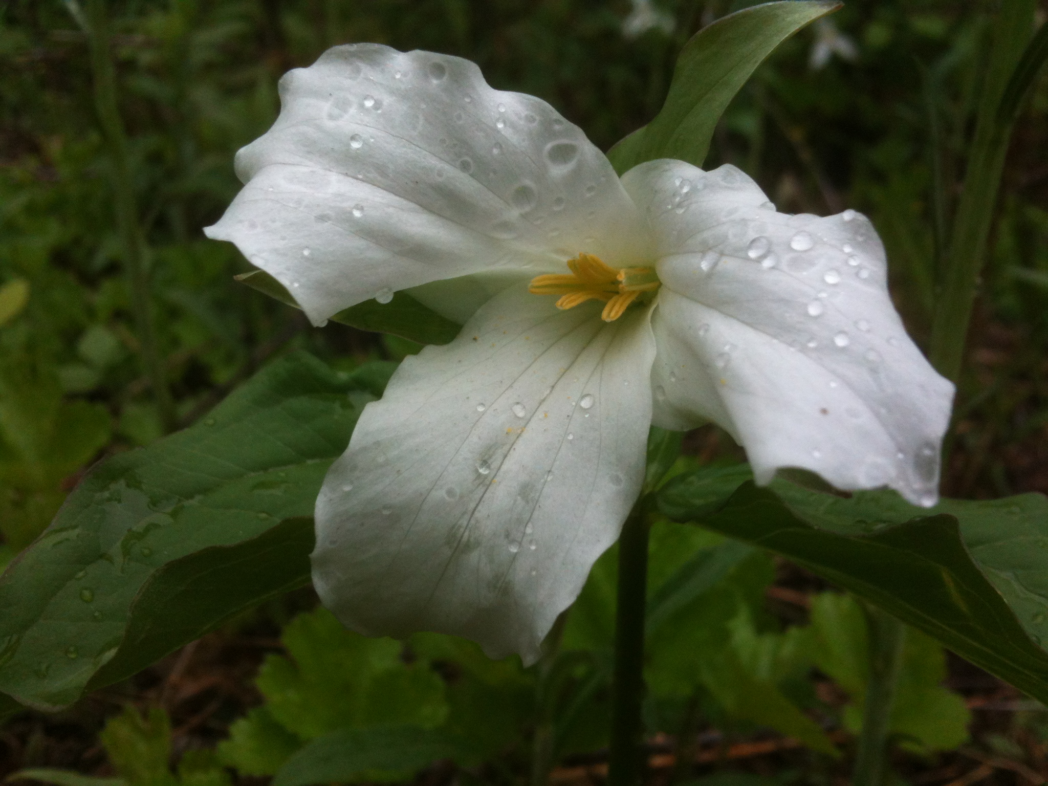 The great white trillium seen here on a rainy day